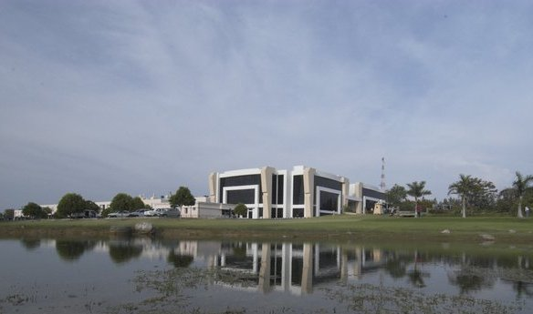 Dr reddys formulation units